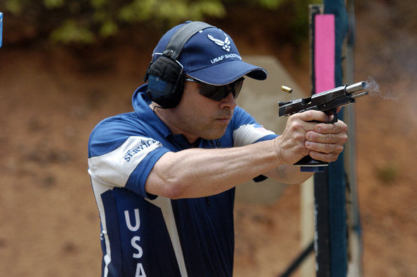 Steven Dennis, team captain for the Air Force Action shooting team, at the 2010 USPSA Area 6 Limited division championship in Convington, Georgia, April 17.